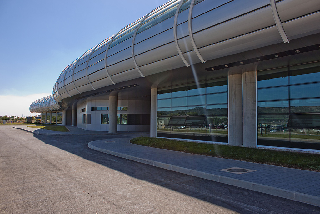 New airport ramp - lower level, Split Airport